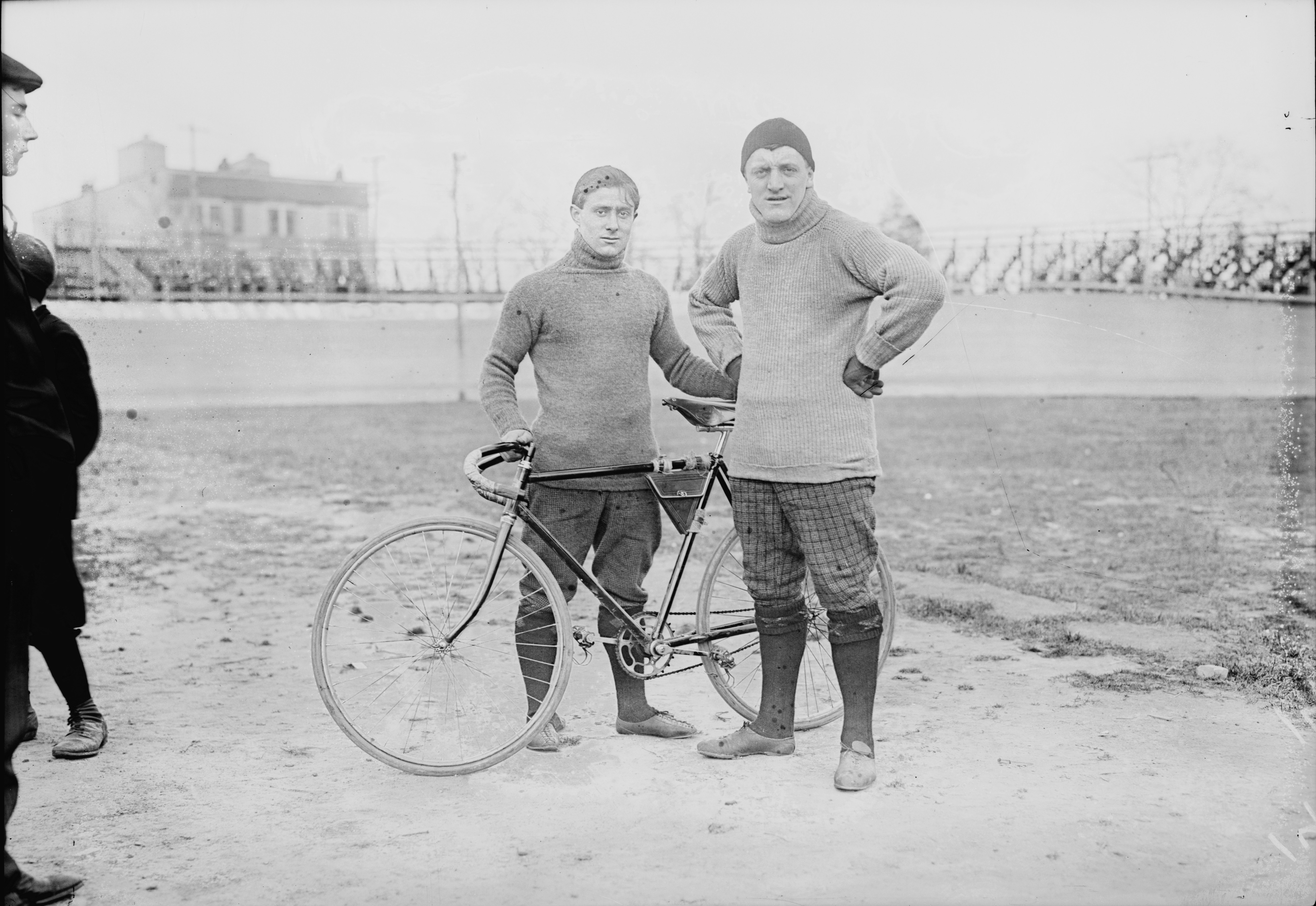 John Stol and Walter Rütt with bicycle (according to unverified data provided by the Bain News Service on the negative or caption card)